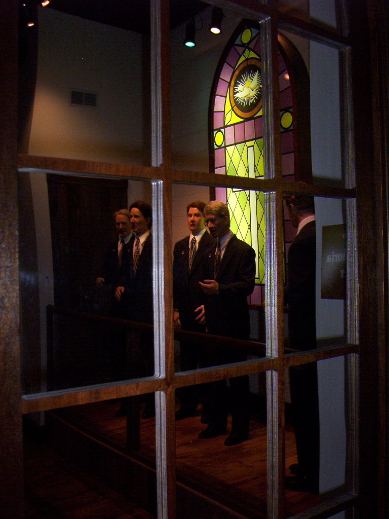 Animatronic quartet at the SGMA Museum